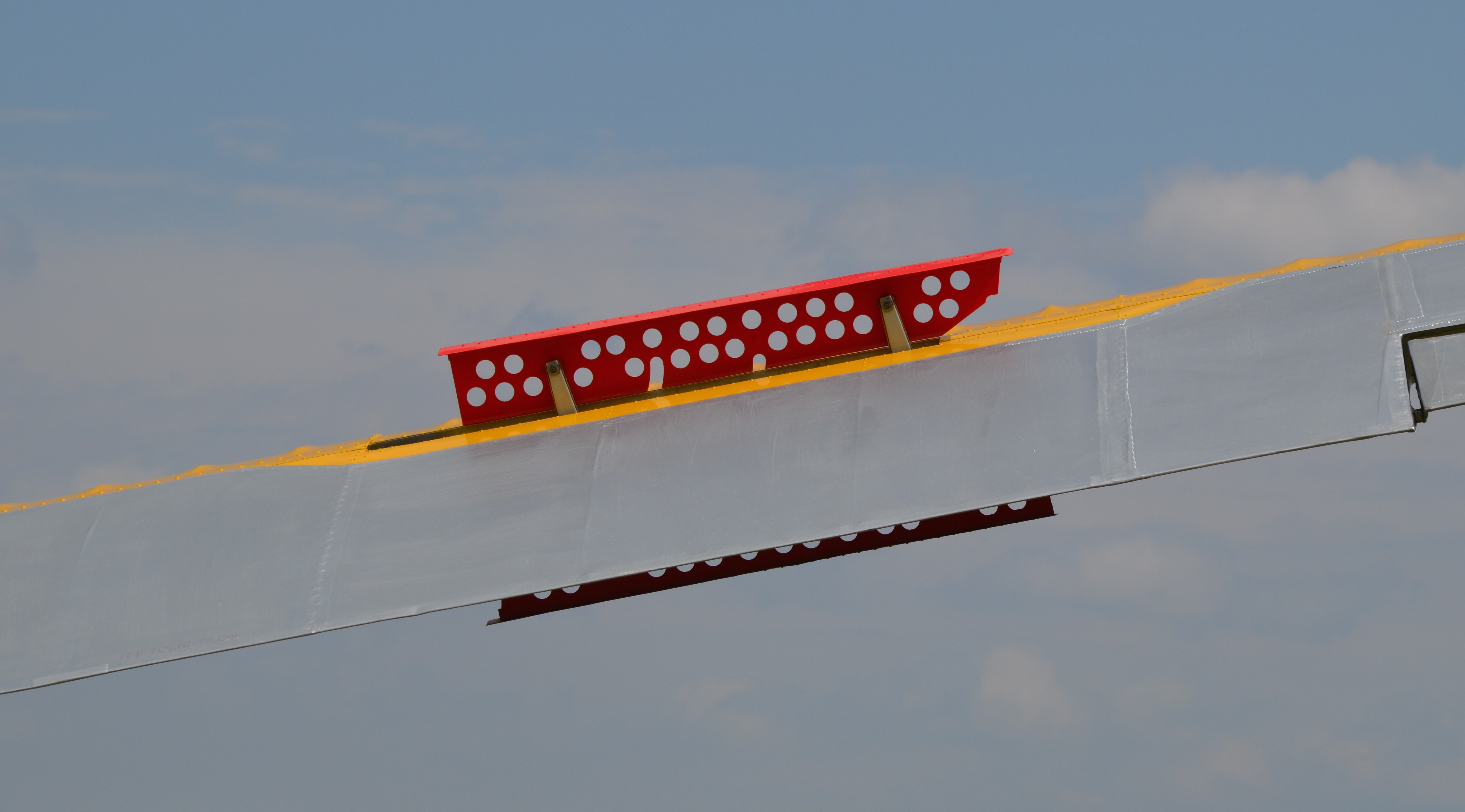 DFS type air brake on a Hungarian R-26SU Góbé'82 glider